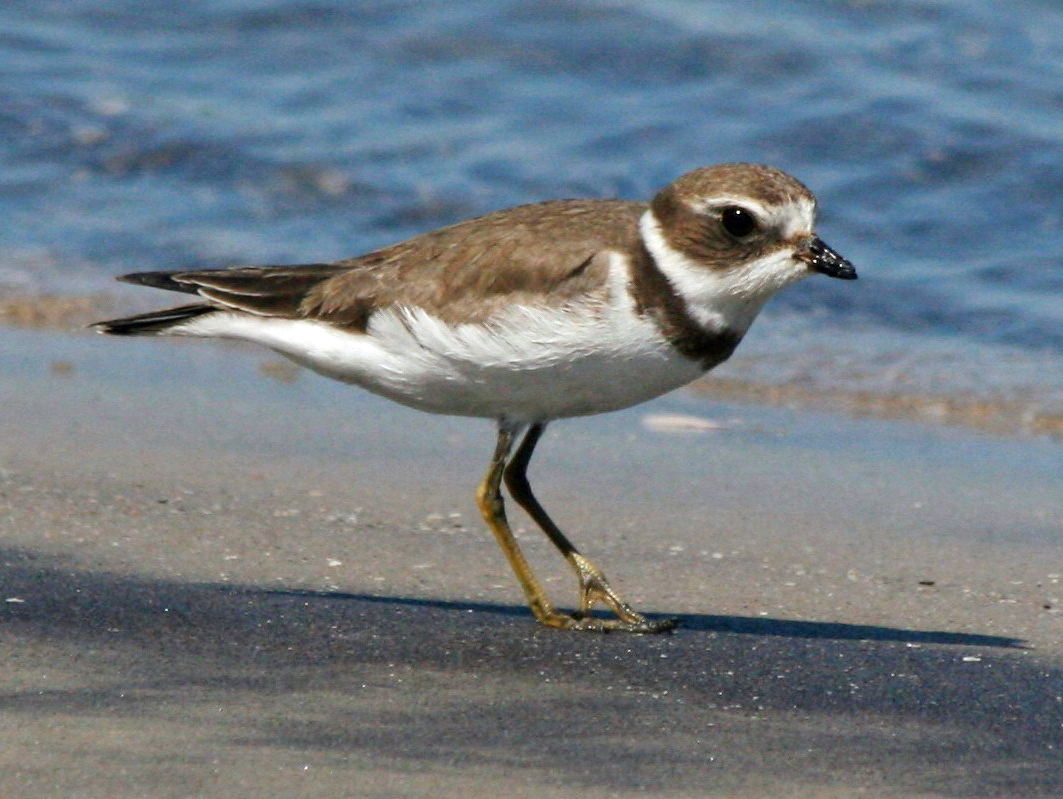 Semipalmated Plover (Charadrius semipalmatus) at Sunset Beach, North Carolina